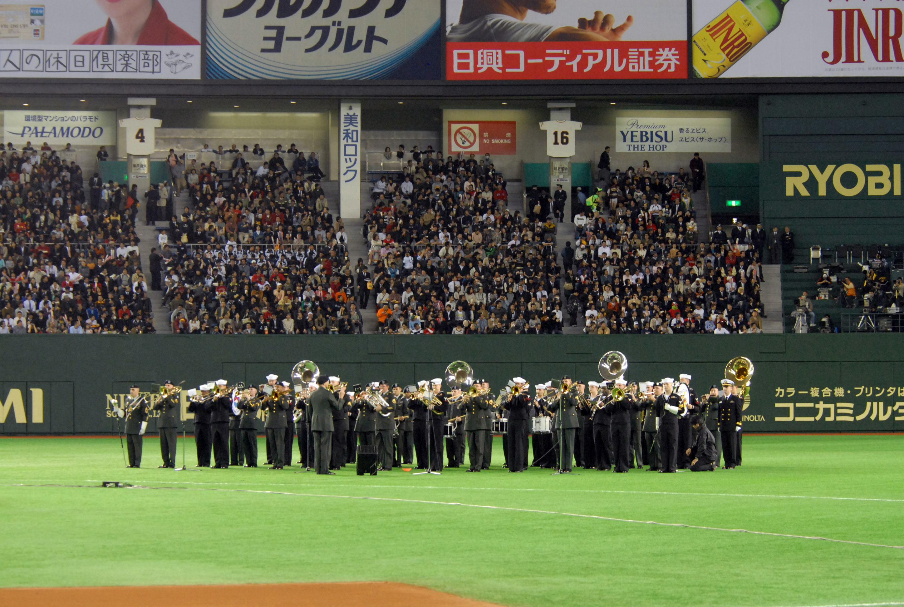 The U.S. 7th Fleet Band and U.S. Army Japan Band perform for Major League Baseball's Opening Day game between the Boston Red Sox and Oakland Athletics.